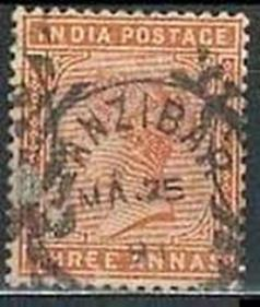 India postage Queen Victoria stamp used in Zanzibar. Orange three annas